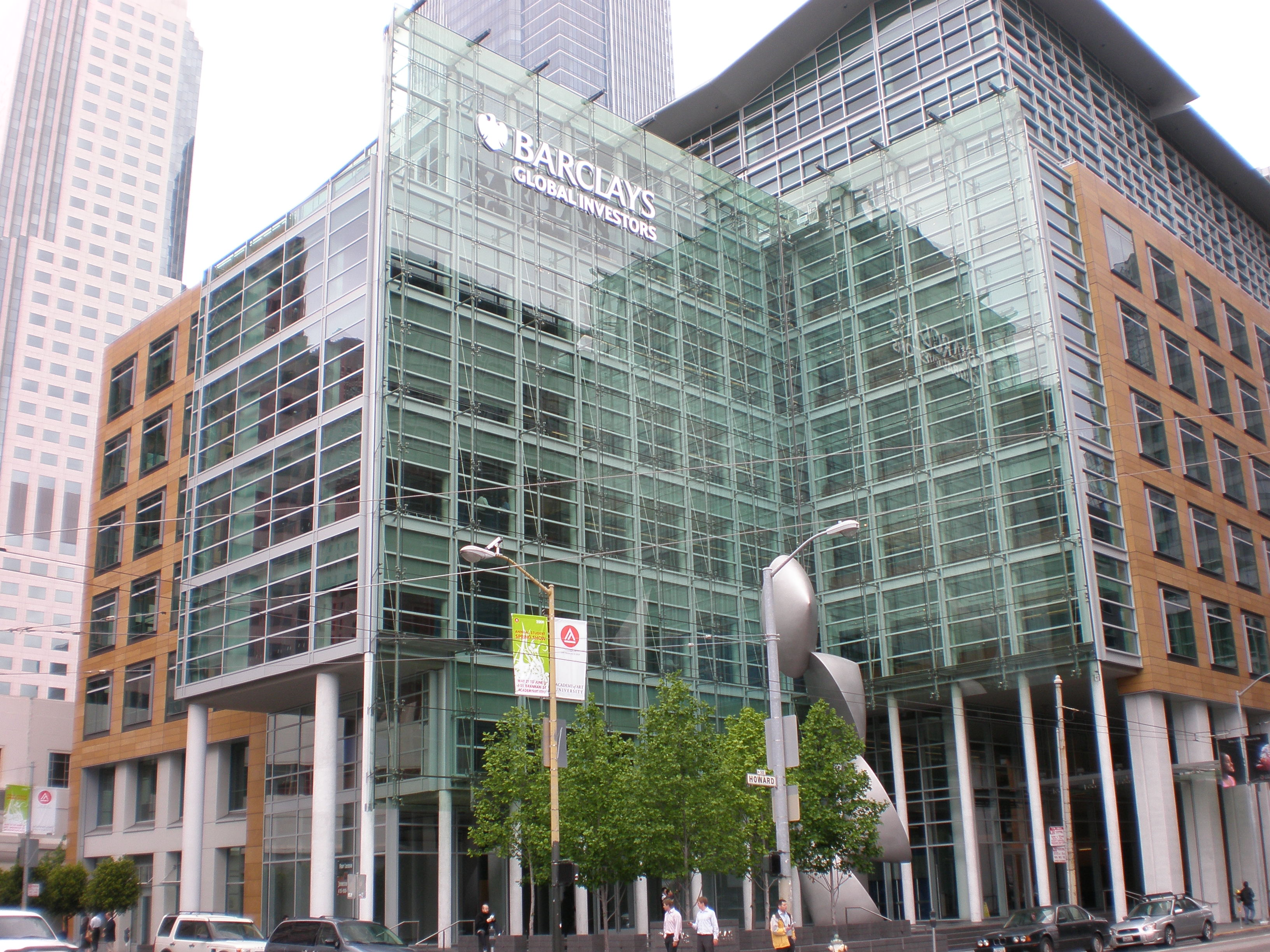 Barclays Global Investors headquarters on Howard Street in San Francisco, California.